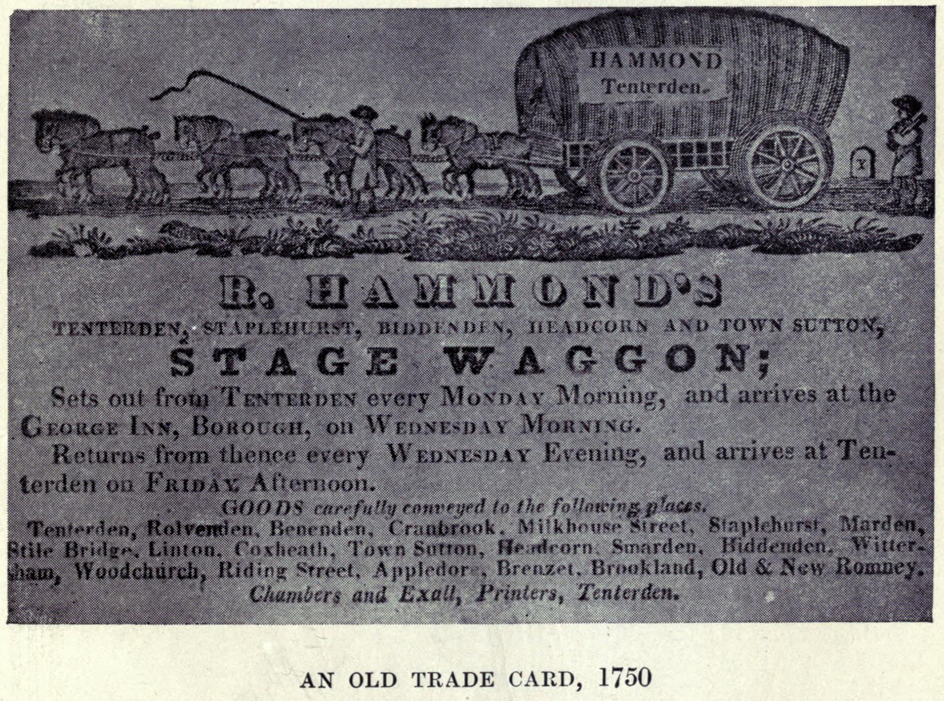 Photo of an old trade card of (about?) 1750 issued by R Hammond of Tenterden, Kent, England